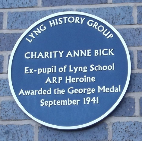 Blue Plaque for Charity Anne Bick, youngest recipient of the George Medal, at Lyng Primary School in West Bromwich, England.